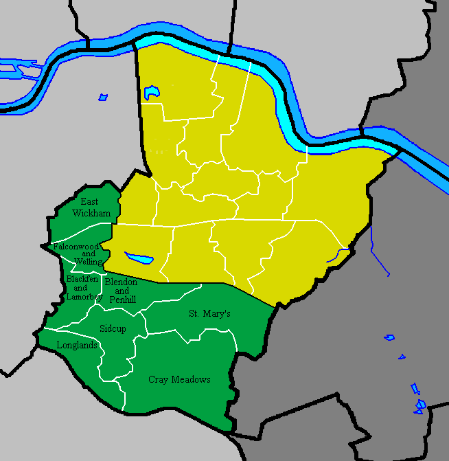 revised wards and boundaries of the Old Bexley and Sidcup constituency (green) within the London Borough of Bexley (yellow and green).